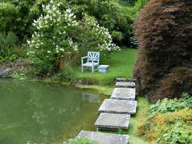 Stepping stones across the pond at Chartwell Apparently Sir Winston Churchill used to meditate at this spot